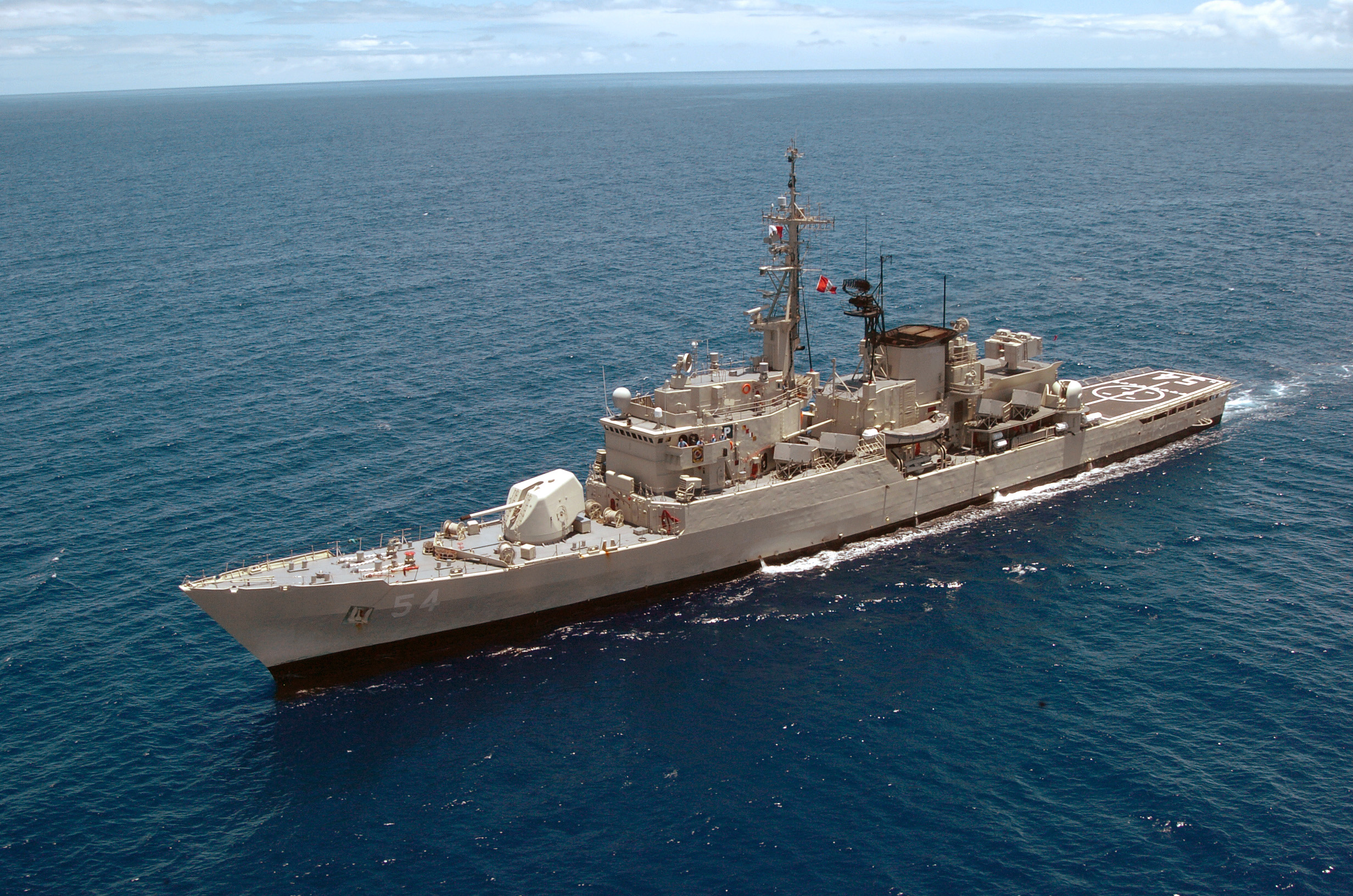 The Lupo-Class Peruvian Navy Frigate Mariategui (FM-54) underway off the coast of Hawaii during Exercise Rim of the Pacific (RIMPAC) 2006. Eight nations are participating in RIMPAC, the world's largest biennial maritime exercise. Conducted in the waters off Hawaii, RIMPAC brings together military forces from Australia, Canada, Chile, Peru, Japan, the Republic of Korea, the United Kingdom and the United States.